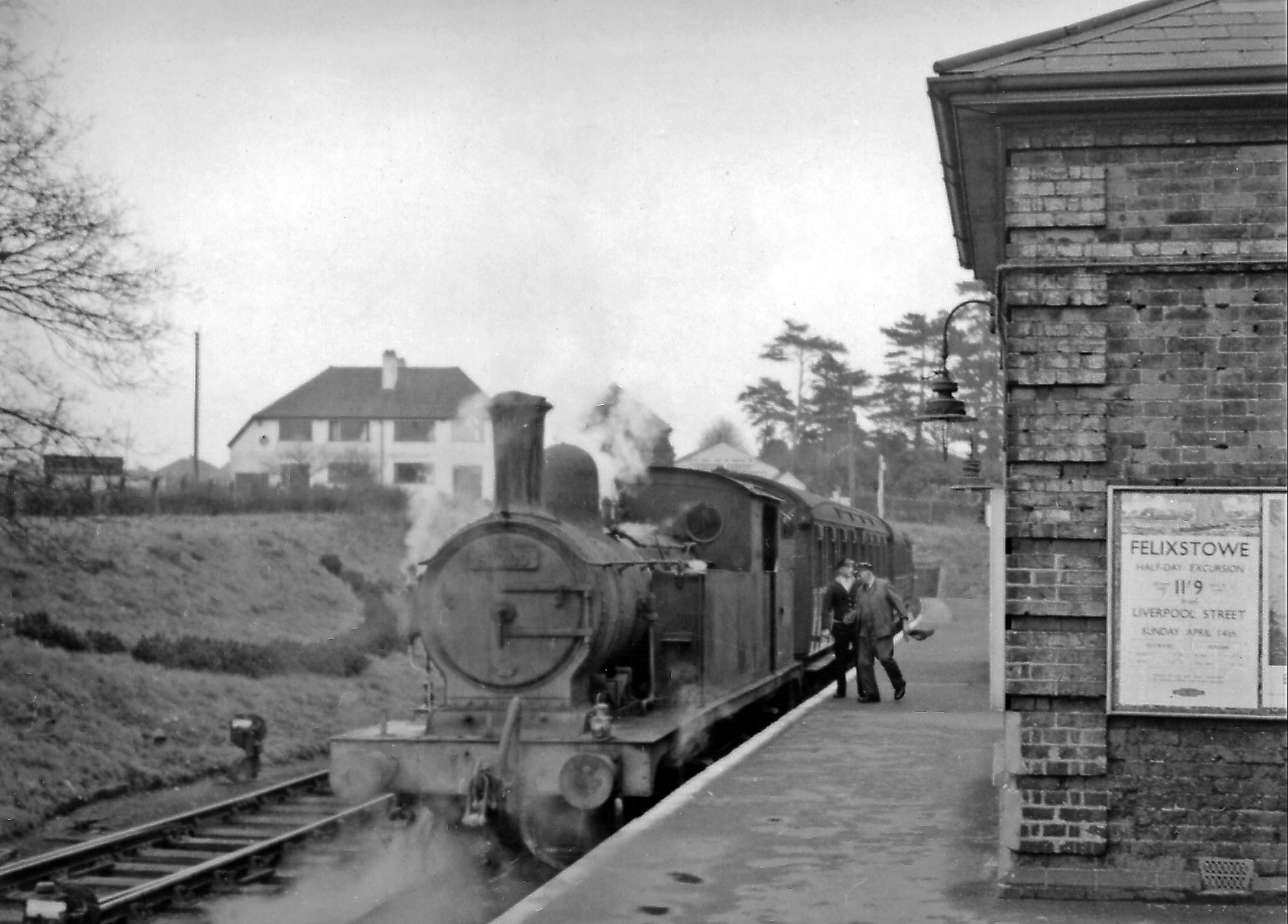 Ongar Station, with push-&-pull train to Epping. View eastwards to the buffer-stops; terminus of the ex-Great Eastern branch from London Liverpool Street via Stratford and Epping. Latterly, the branch had been operate only with a push-&-pull service from Epping. Since 24/9/49 it had come under the auspices of London Underground and and shortly after this photograph was taken the branch from Epping was finally electrified and operated by Tube trains. The locomotive in the scene is ex-GE F5 2-4-2T No. 67200.